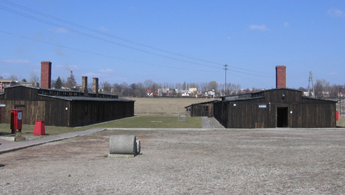 Majdanek concentration camp - Right means death. Left means life. Only the right building has gas cells.